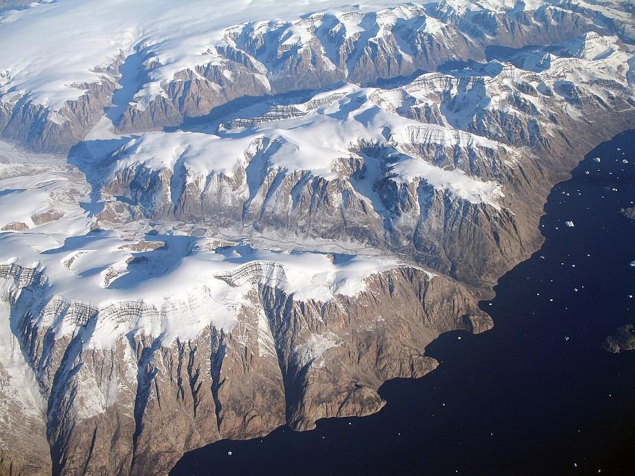 Aerial photograph of Greenland, taken during an intercontinental flight